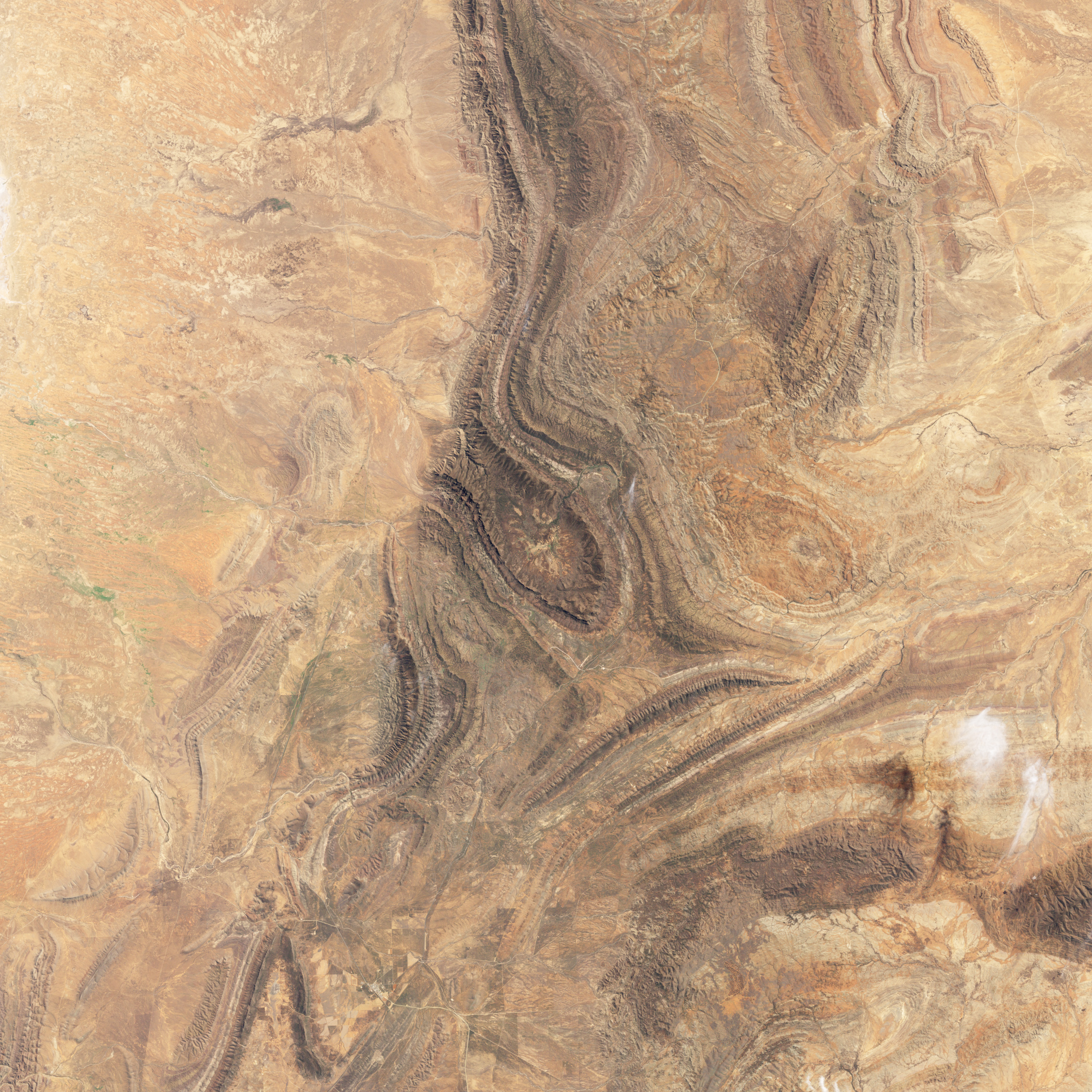 Natural-colour image of Wilpena Pound and its surroundings. Wilpena Pound and nearby mountains appear in shades of beige, brown, grey, and green. Although the area is semi-arid, trees grow naturally throughout much of Wilpena Pound. Areas of bare, pale soil appear as patches of tan in the middle of the pound. Wilpena Pound is roughly 17 by 8 kilometres, and the floor of the pound is 8 by 4 kilometres. The centre of this feature is the valley floor from a mountain range that long ago eroded away. While the relatively soft rocks in the centre of the pound succumbed to wind and rain, the surrounding walls are made of erosion-resistant quartzite.